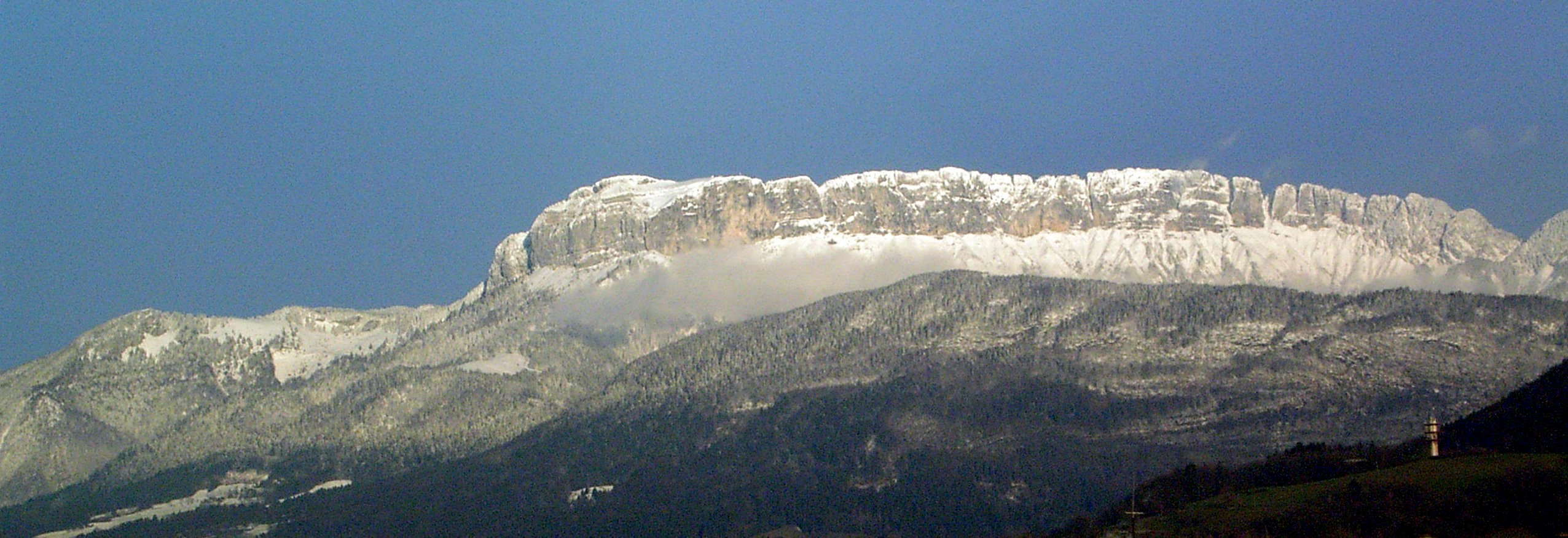 The Parmelan viewed from Annecy (Haute-Savoie, France).